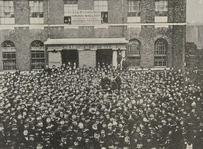 A meeting outside the West India Dock gates from the Illustrated London News of 7 September 1889.